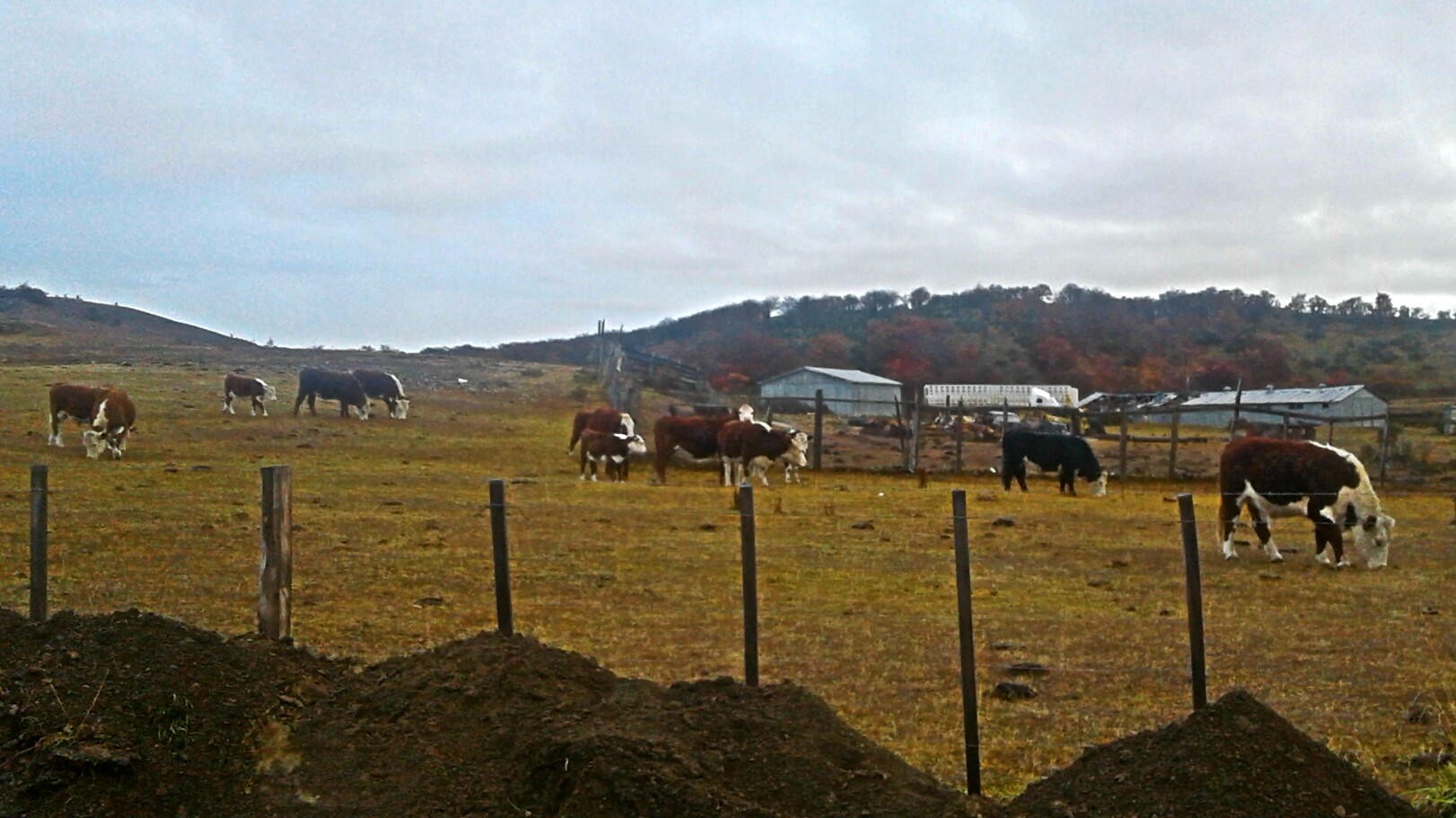 Cows in a pasture near Punta Arenas, Chile (2016).